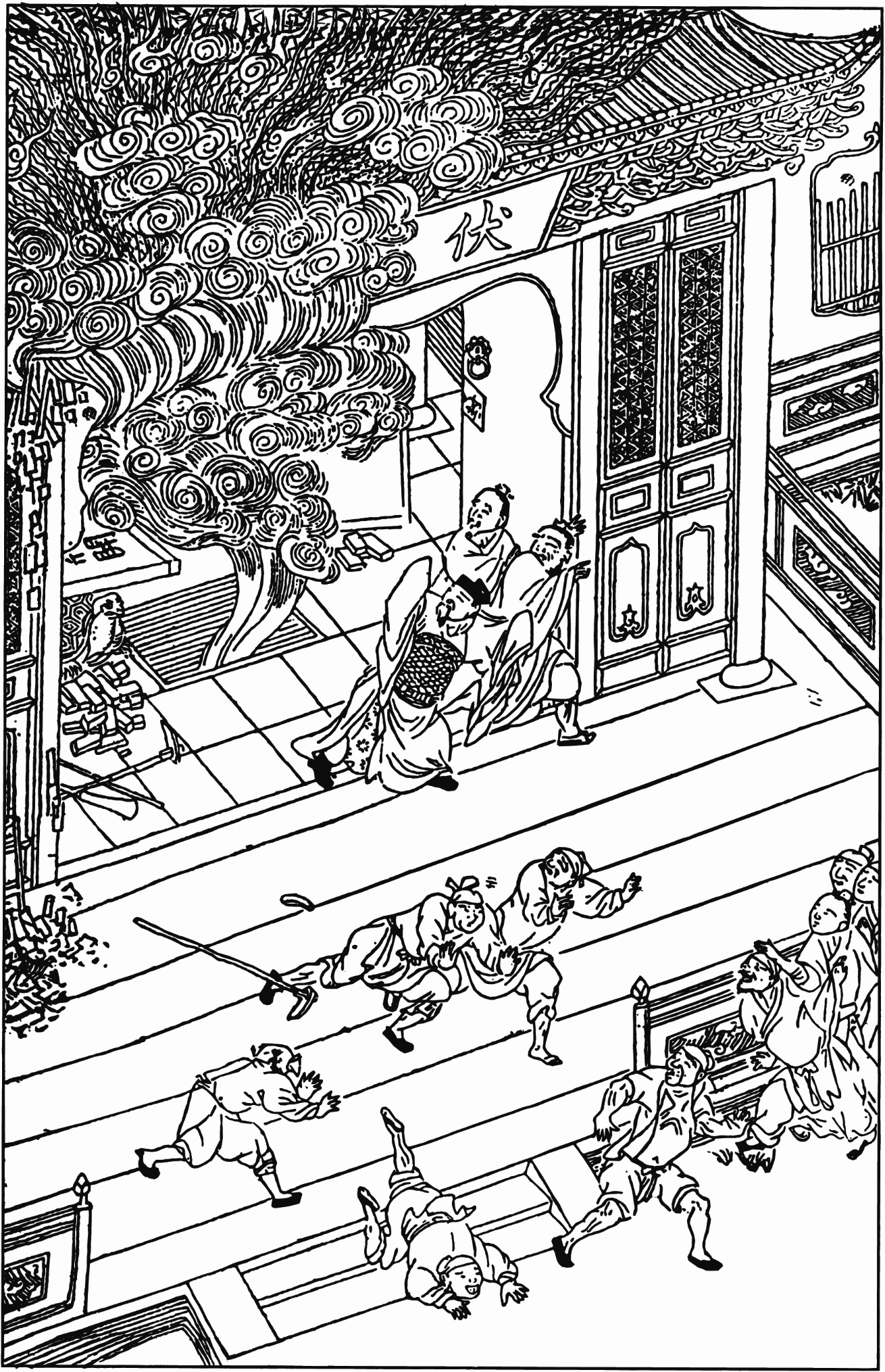 Illustration of ancient Chinese book “Outlaws of the Marsh”